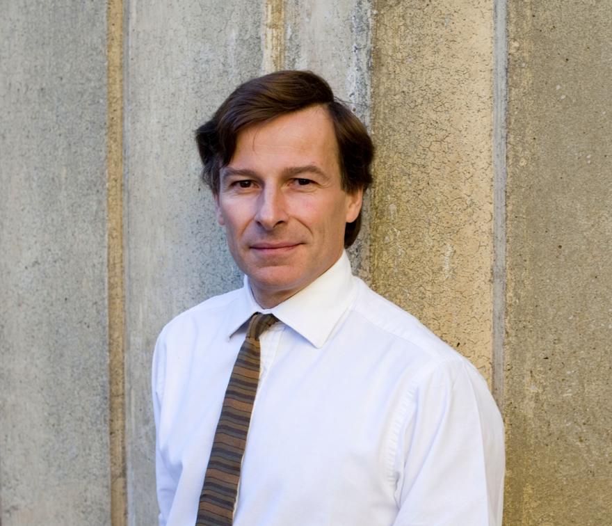 Luke Hughes, Furniture Designer